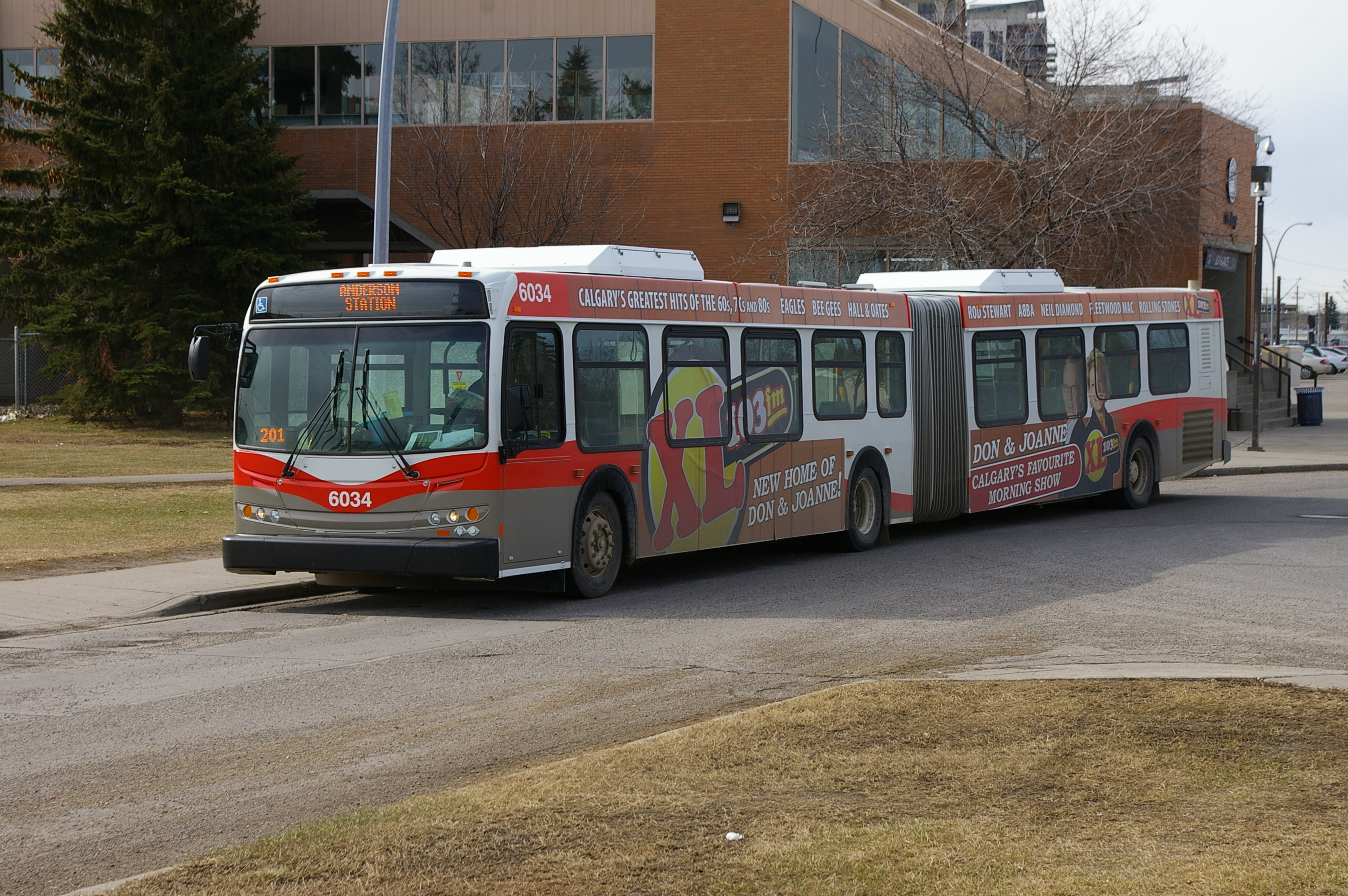 A Calgary Transit New Flyer articulated bus with new livery, on route 201.